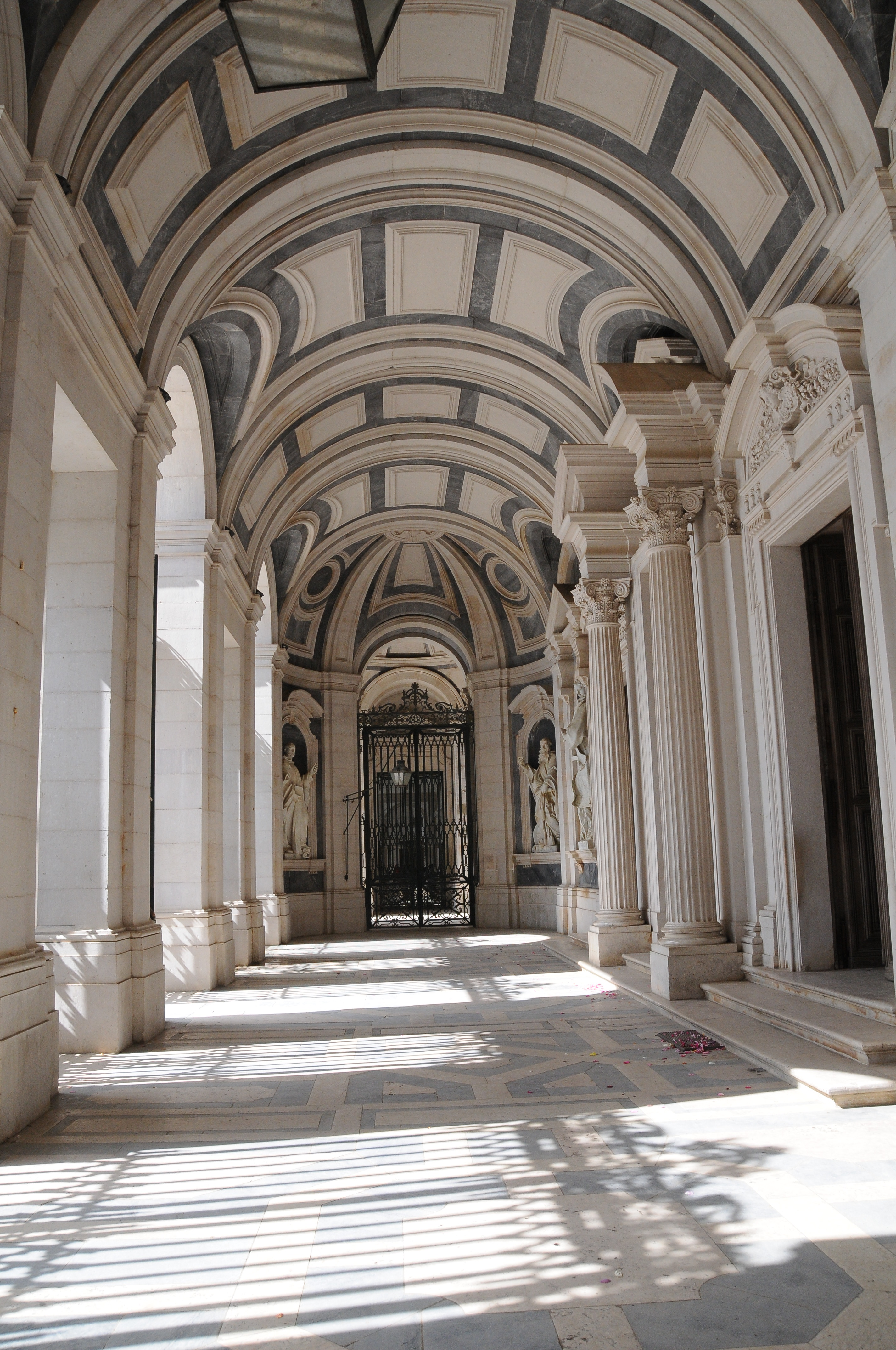 Palácio Nacional de Mafra Portugal in 2012